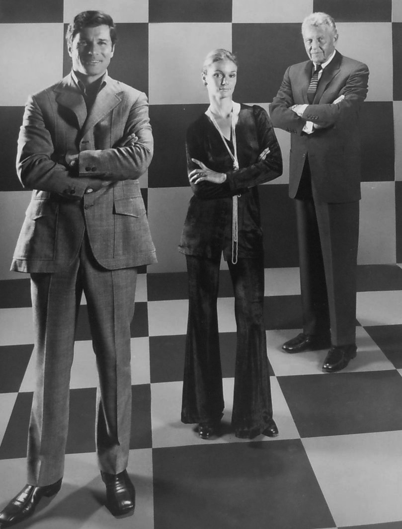 Cast photo from the television program The Most Deadly Game. From left-George Maharis, Yvette Mimieux and Ralph Bellamy.